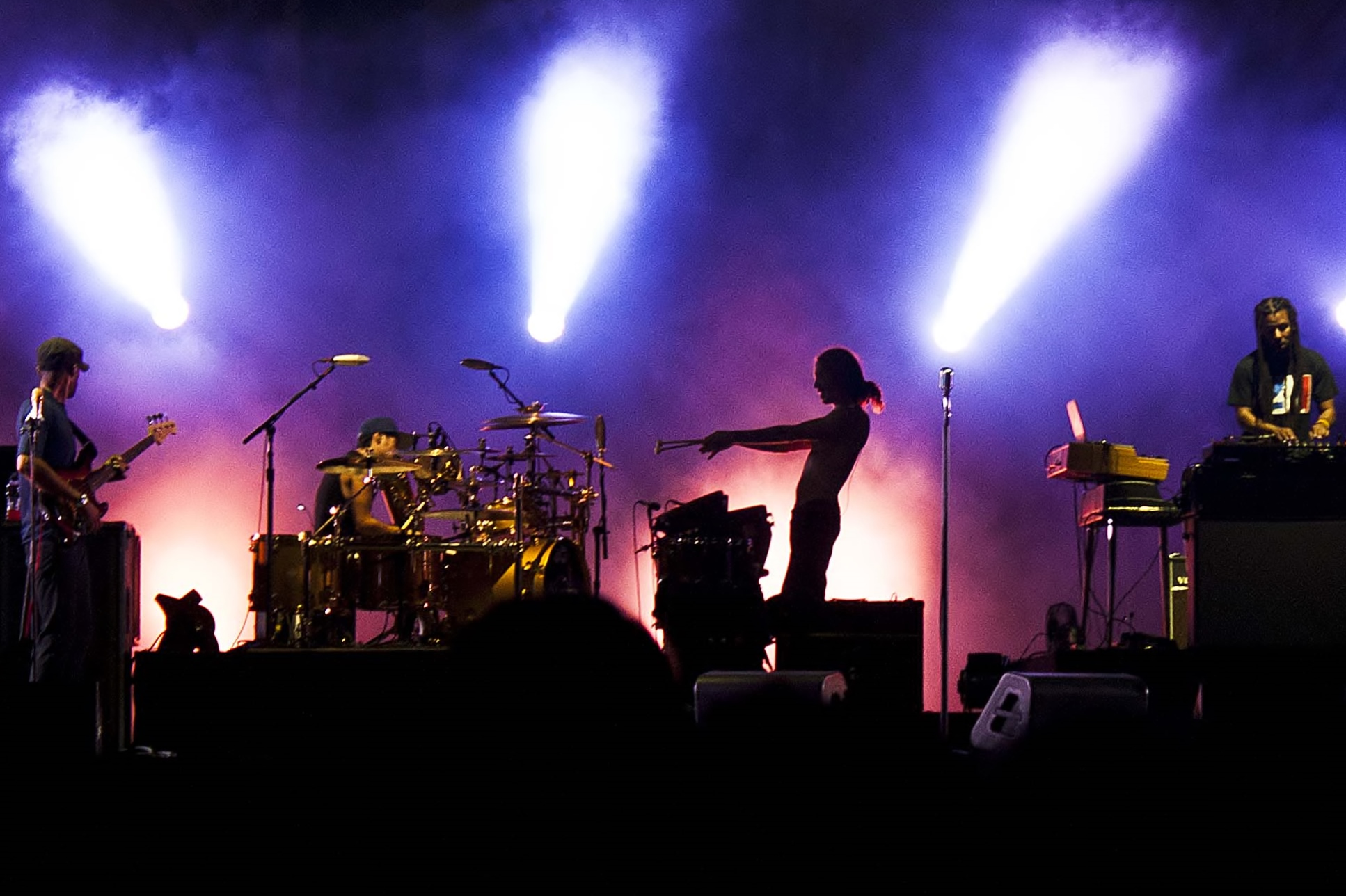 Incubus performing at Rock in Roma on 25 June 2012. From left to right: Ben Kenney, José Pasillas, Brandon Boyd and Chris Kilmore.